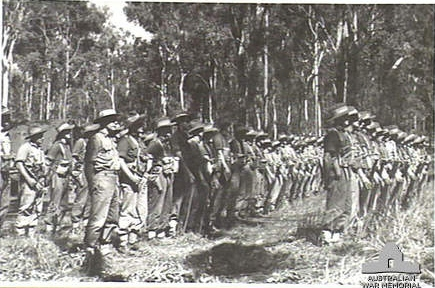 Troops from the 2/4th Pioneer Battalion, 1st Beach Group, 2nd AIF on parade at Wongabel, Queensland, in May 1944